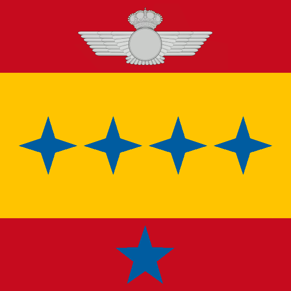 Official flag of the Chief of Staff of the Air Force of Spain